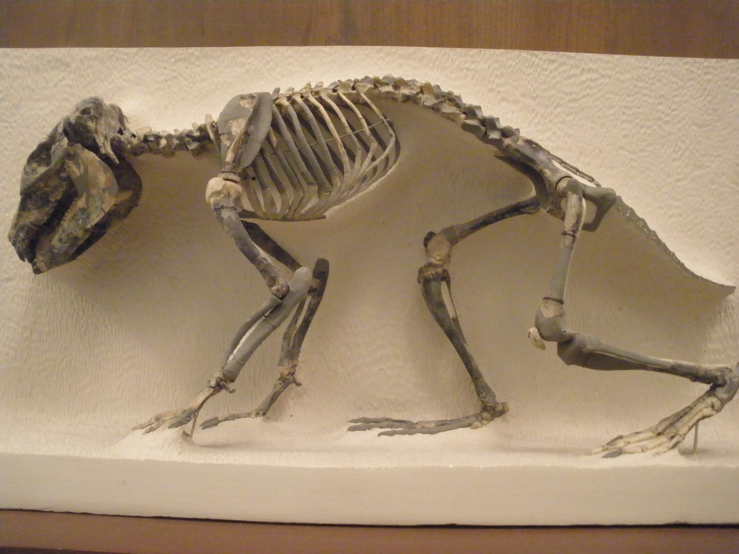 Skeleton of Propachyrucos ameghinorum, a fossil notoungulate in the "American Museum of Natural History", New York